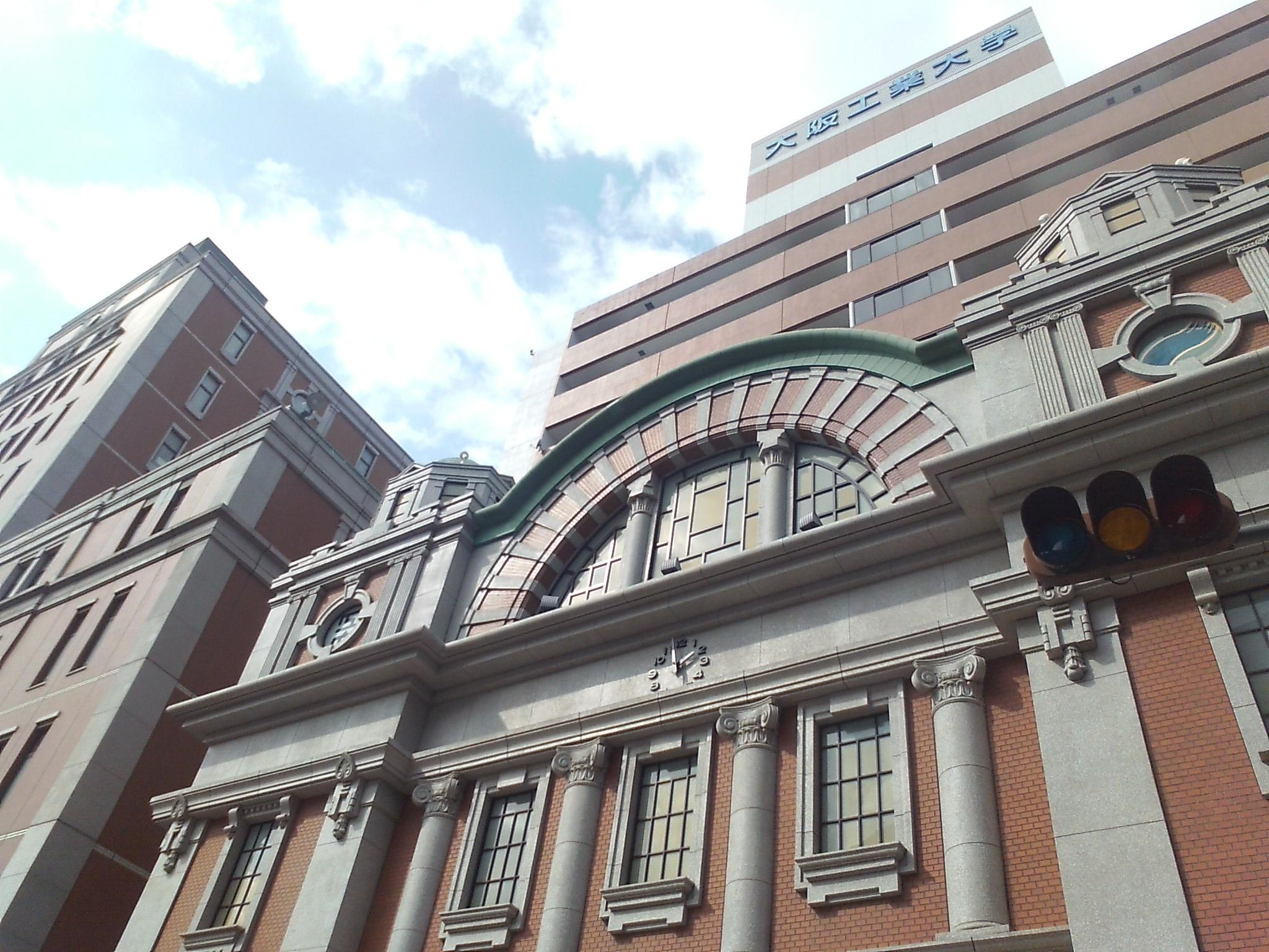 Entrance to Omiya Campus, Osaka Institute of Technology, located in Asahi-ku, Osaka, Osaka Prefecture, Japan.